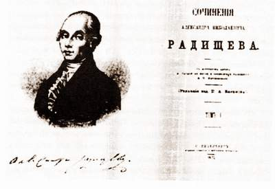 The title-page of book by Radishev